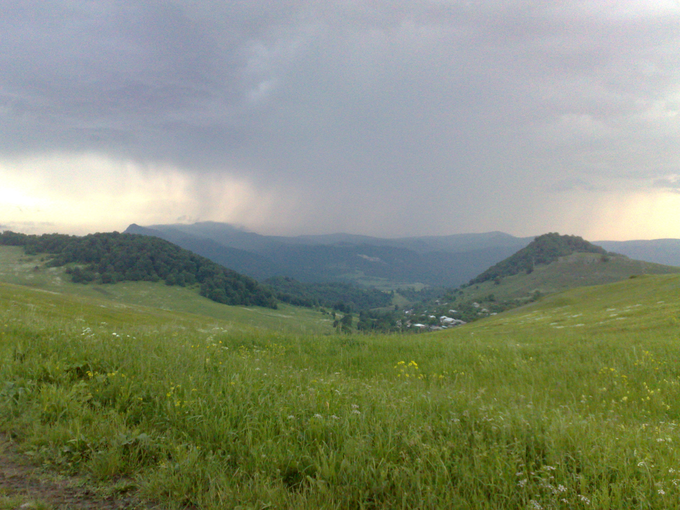 Tavush province of Armenia. Near villages Itsakar and Navur. In the distance we can see the part of Itsakar village.